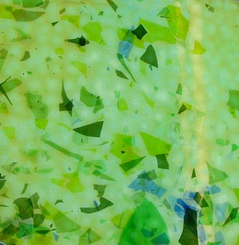 A sample of fracture glass.